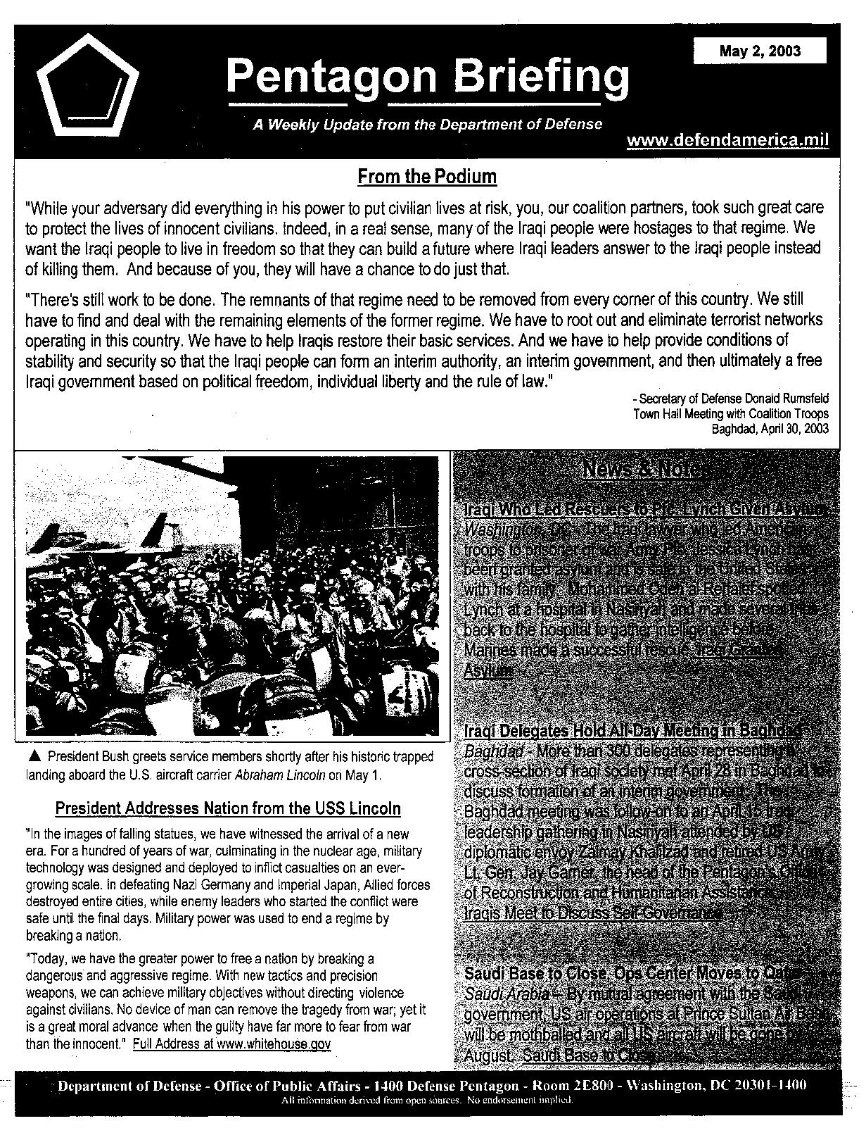 Page one of a Pentagon briefing handout given to military analysts as part of the Pentagon message machine operation